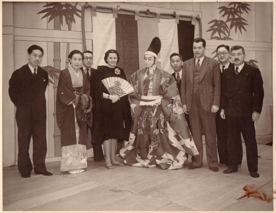 This is a photograph of the popular Meiji period kabuki actor Ichimura Uzaemon XV taken at the Kabukiza in 1930 in Tokyo. He is dressed as Togashi, the aristocrat in charge of the road barrier in the play Kanjincho, or the Subscription List. During the 1930s Uzaemon played opposite another popular Meiji period kabuki actor Matsumoto Koshiro VII who played Musashibo Benkei, the warrior monk and retainer of Minamoto Yoshitsune. Also in the picture is Ito Shinsui and possibly Hasui Kawase, both artists who were part of the revival at the time of the ukiyo-e woodblock print. They are surrounded by other dignitaries both Japanese and Western. The Western woman may possibly be an actress. It was around this time that kabuki as an art form was being popularized in the West and shortly before Charlie Chaplin visited Japan in 1932 and saw the Kabuki at Minamiza in Kyoto and Kabukiza in Tokyo where he met Nakamura Kichiemon I. Chaplin was and is still, extremely popular in Japan and his film 'City Lights' was adapted to Kabuki being called Komori no Yasusan, or Batman Yasu. In the photograph are Itō Shinsui 伊東深水 (4 February 1898–8 May 1972) ukiyo-e woodblock printer and Nihonga artist. Born Itō Hajime 伊東一 looking over Uzaemon's shoulder and Hasui Kawase 川瀬 巴水 (1883-1957) painter of Shin Hanga 新版画 (new prints) style of revived woodblock printing rear and between the two women